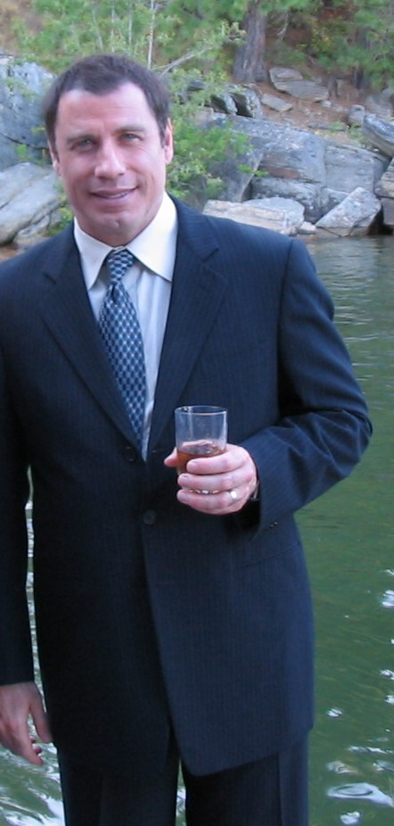 John Travolta at birthday party for Ellen Travolta, 2004. Cropped from original.